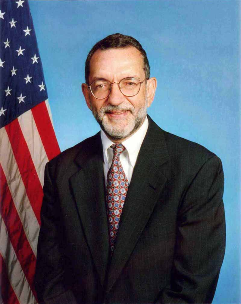 U.S. Ambassador Kenneth Yalowitz, Belarus (1994 to 1997), Georgia (1999 to 2011)